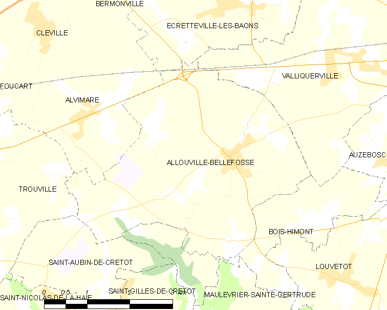 Map of French municipality Allouville-Bellefosse